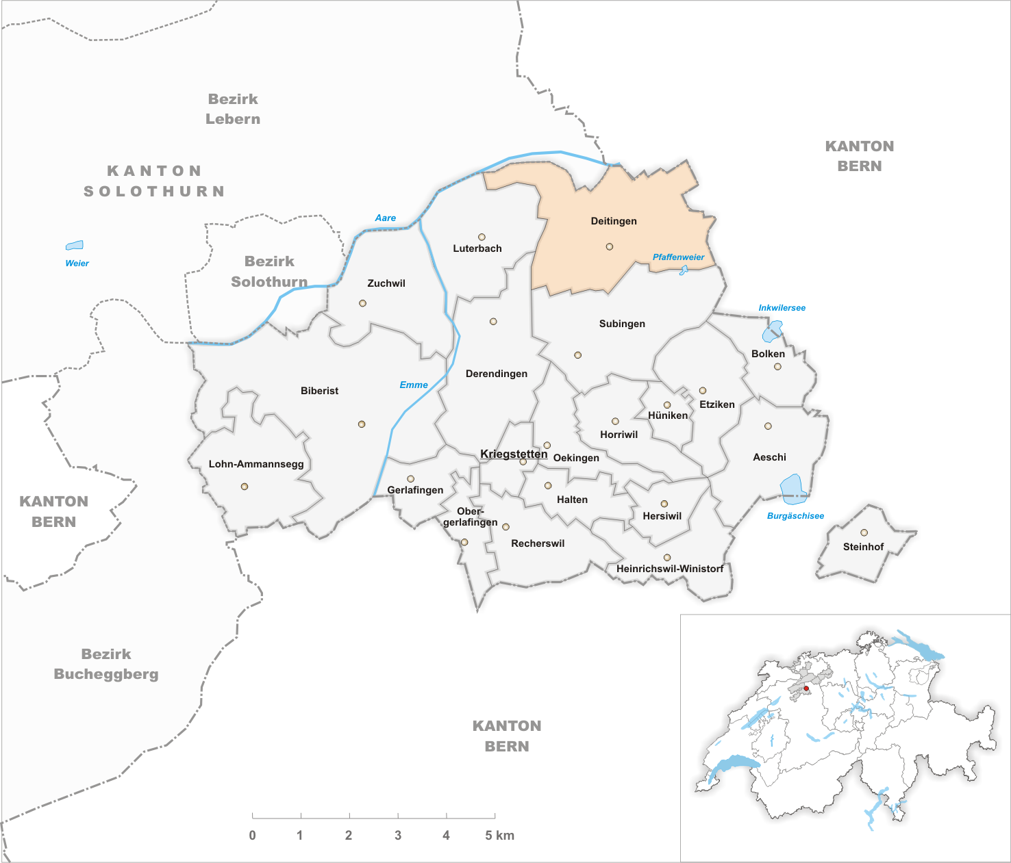 Municipality Deitingen